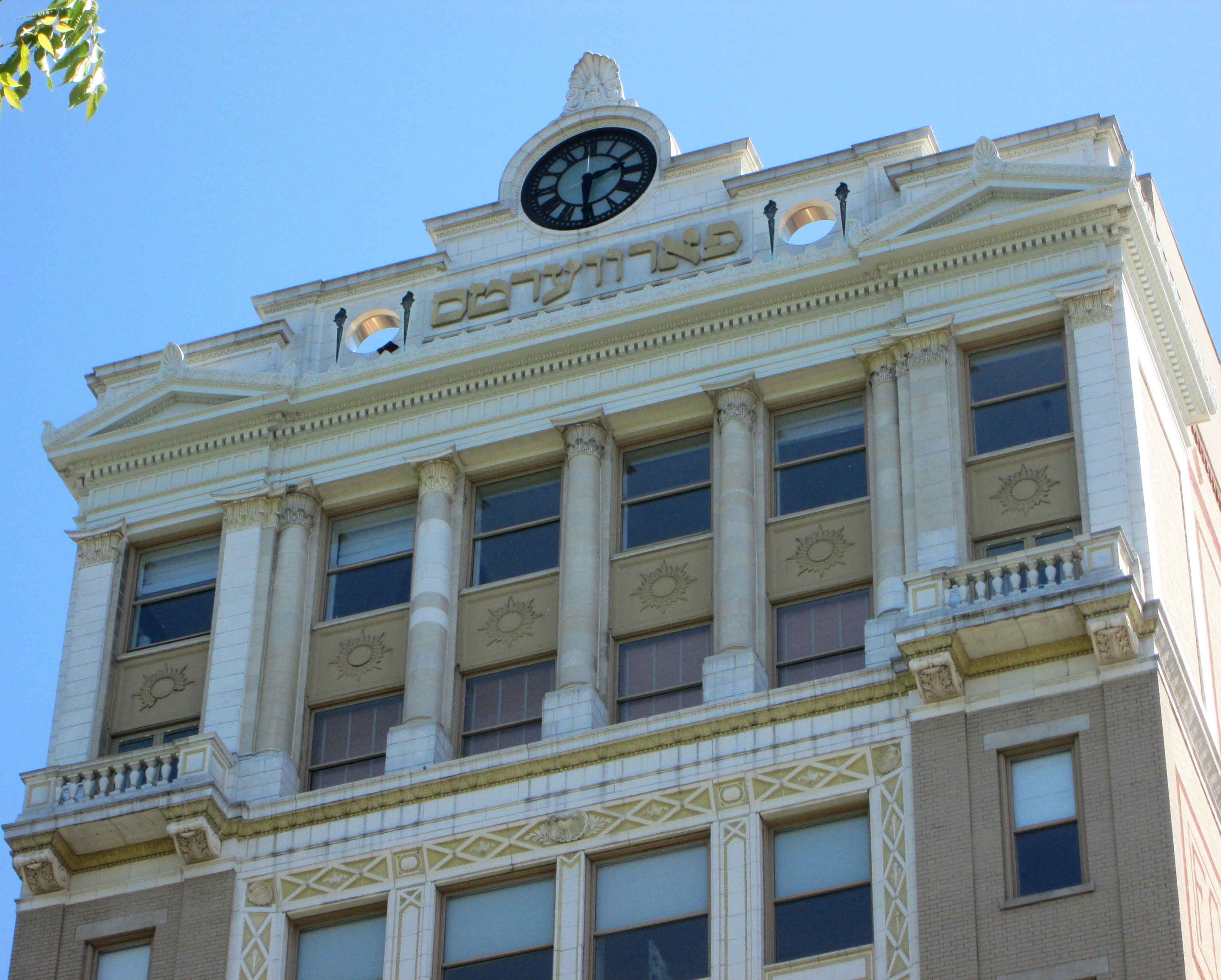 The Forward Building at 173-175 East Broadway between Essex and Jefferson Streets in the Lower East Side of Manhattan, New York City was built in 1912 and was designed by George A. Boehm in the Classical Revival style to be the headquarters of the Jewish Daily Forward, the "most significant Yiddish-language paper in the United States". (Guide to NYC Landmarks) The building's ornamentation represents the paper's socialist politics and include flaming torches, as well as relief portraits of socialist leaders such as Marx and Engels. The building was converted to apartments in 1999 by Alfred Wen. (Sources: Guide to NYC Landmarks (4th ed.) and AIA Guide to NYC (5th ed.))